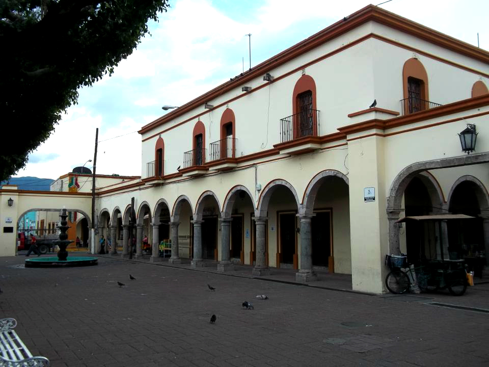 Portal